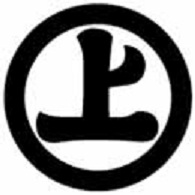 村上 Murakami family crest